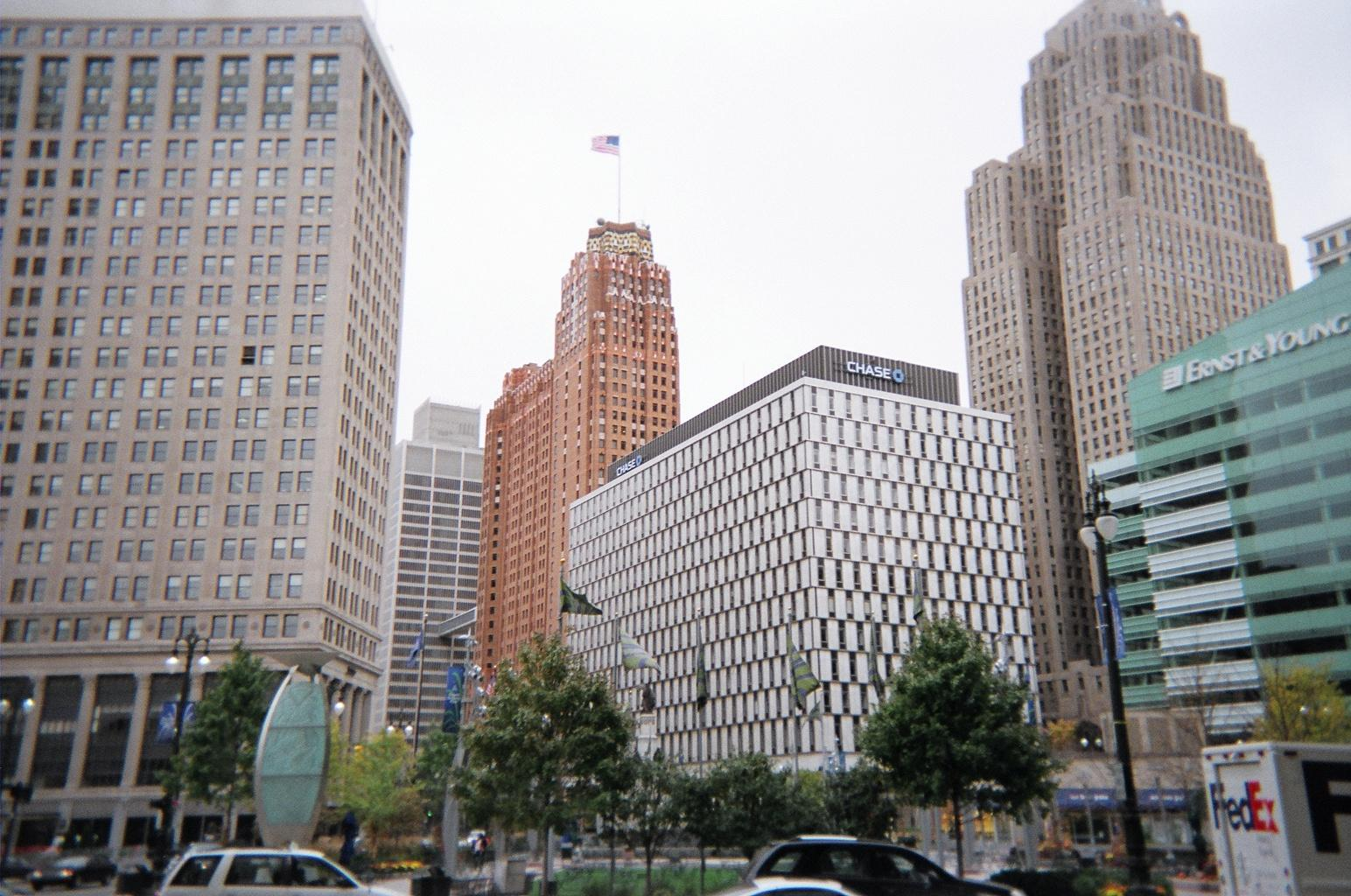 self made